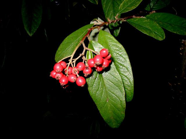 Cotoneaster × watereri